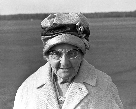 Photograph of Anastasie Mannerheim (1893–1978), daughter of C. G. E. Mannerheim, at Seutula airport.